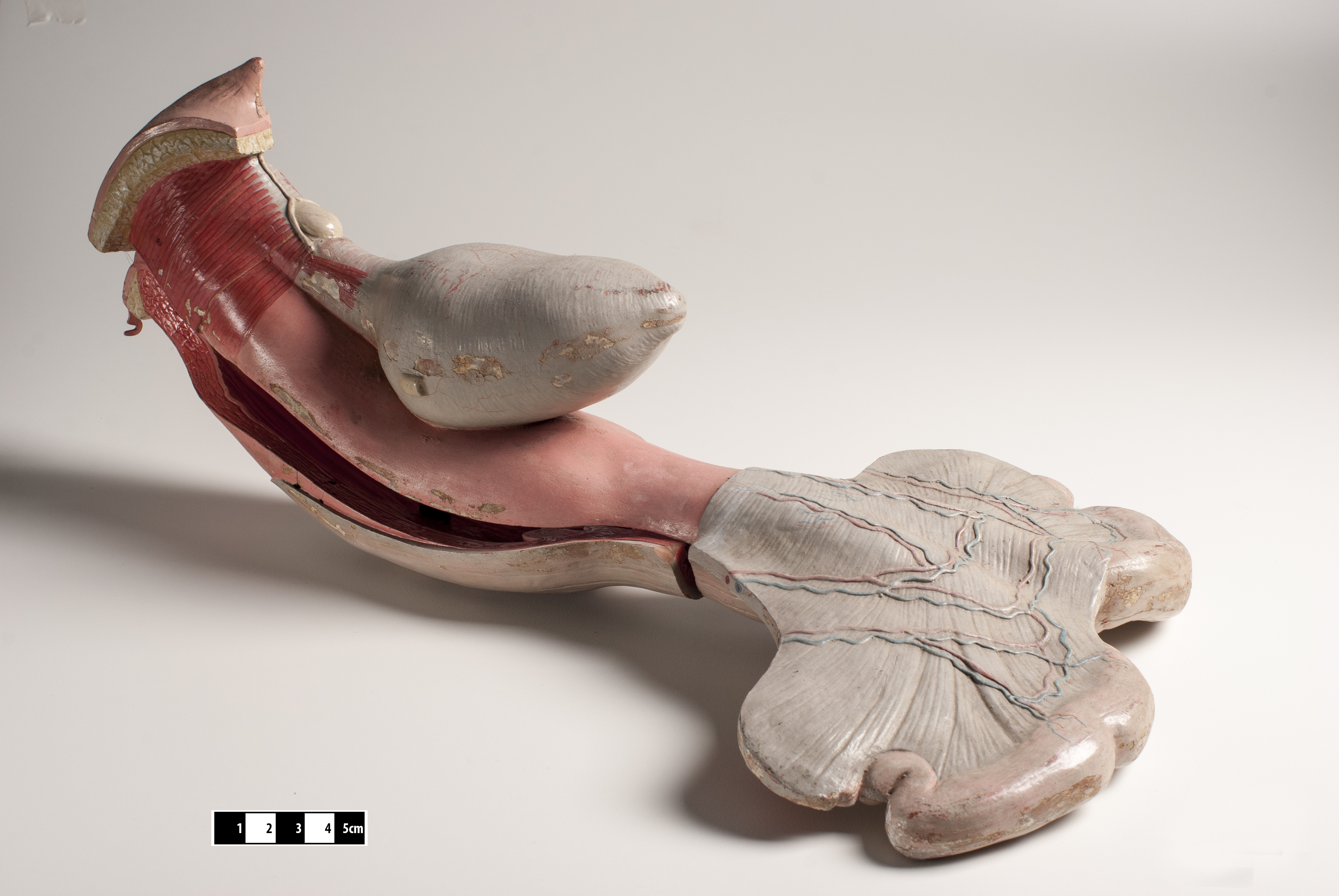 Didactic model of a mammal urogenital system. Teaching model representing different parts of the mammal urogenital system on display at the Museum of Veterinary Anatomy, FMVZ USP. This file was published as the result of a partnership between the Museum of Veterinary Anatomy FMVZ USP, the RIDC NeuroMat and the Wikimedia Community User Group Brasil. This GLAM project is reported. Photography: Museum of Veterinary Anatomy FMVZ USP.